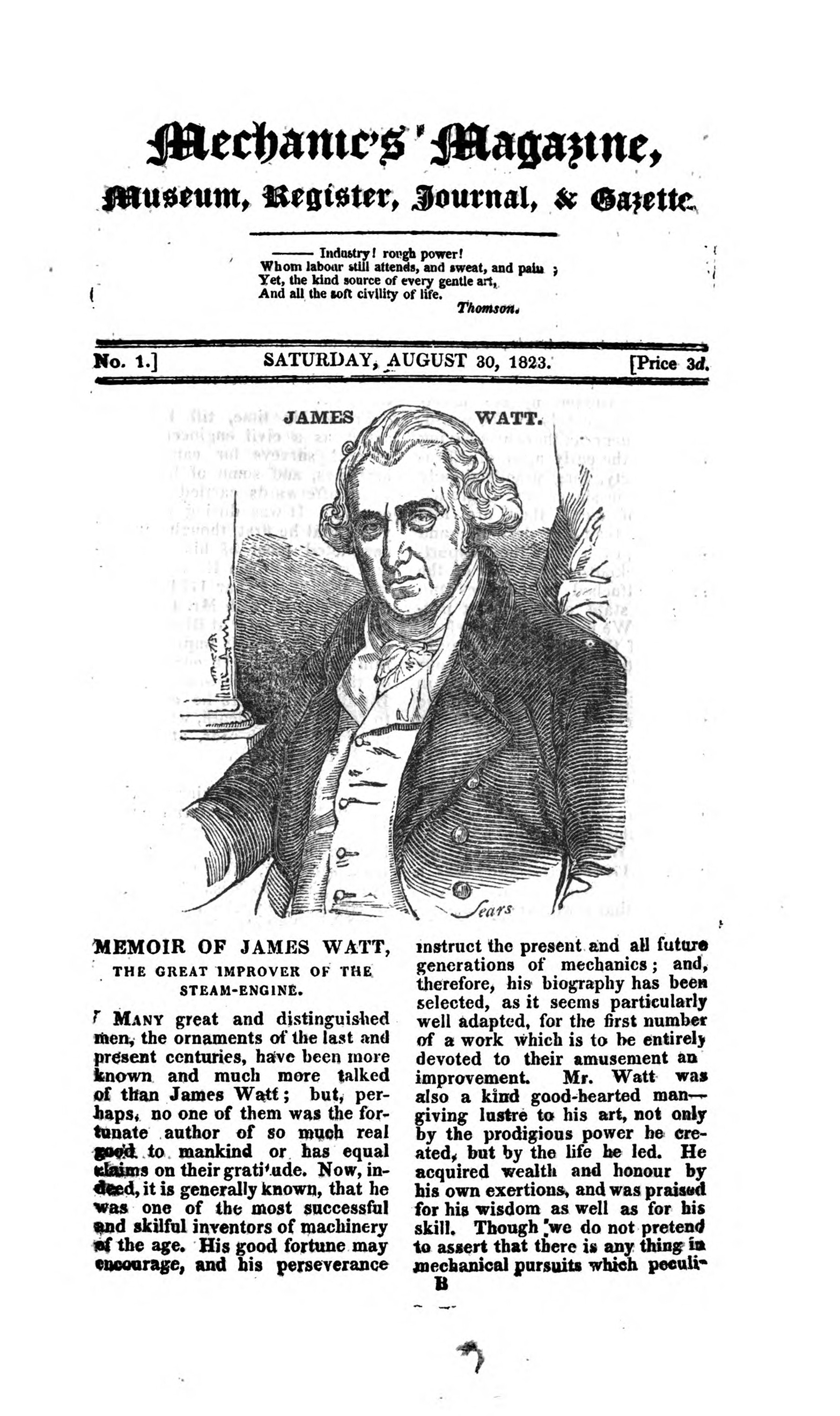 Cover of the first edition of Mechanics’ Magazine (August 30, 1823)